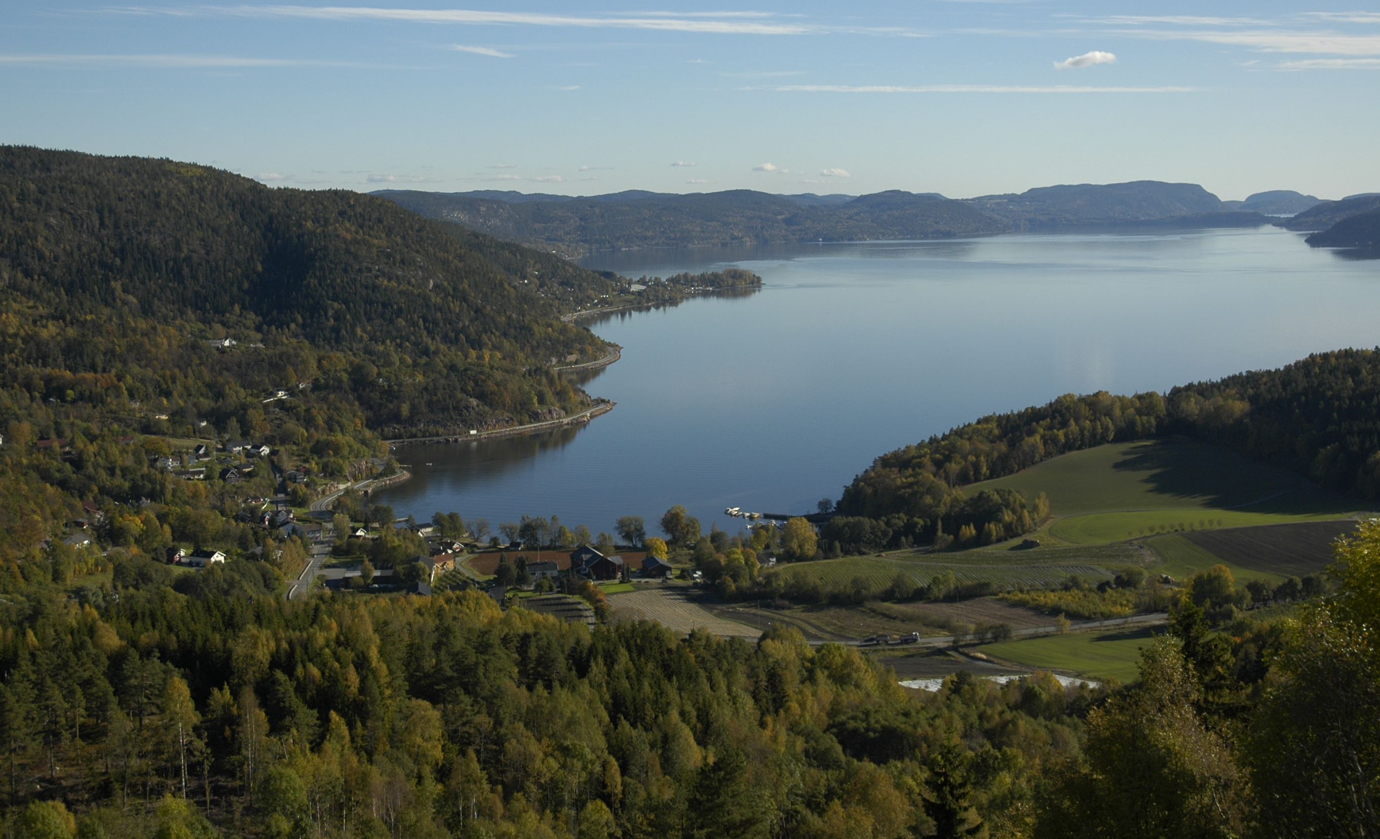 Hyggen by Drammensfjorden, in the municipality of Røyken, Norway